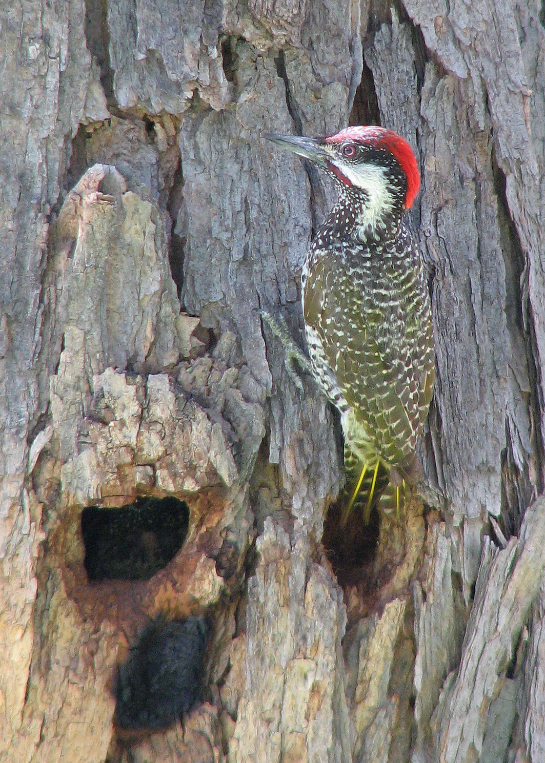 Golden-tailed woodpecker in northern Namibia. The race is named for C. J. Andersson (1827-1867)